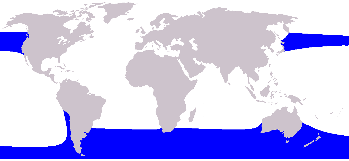 Combined range of the Northern and Southern Right Whale Dolphin species.